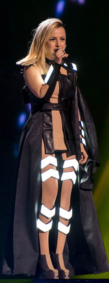 Poli Genova representing Bulgaria with the song "If Love Was a Crime" during a rehearsal before the second semi final of the Eurovision Song Contest 2016 in Stockholm. (Help translate this text)